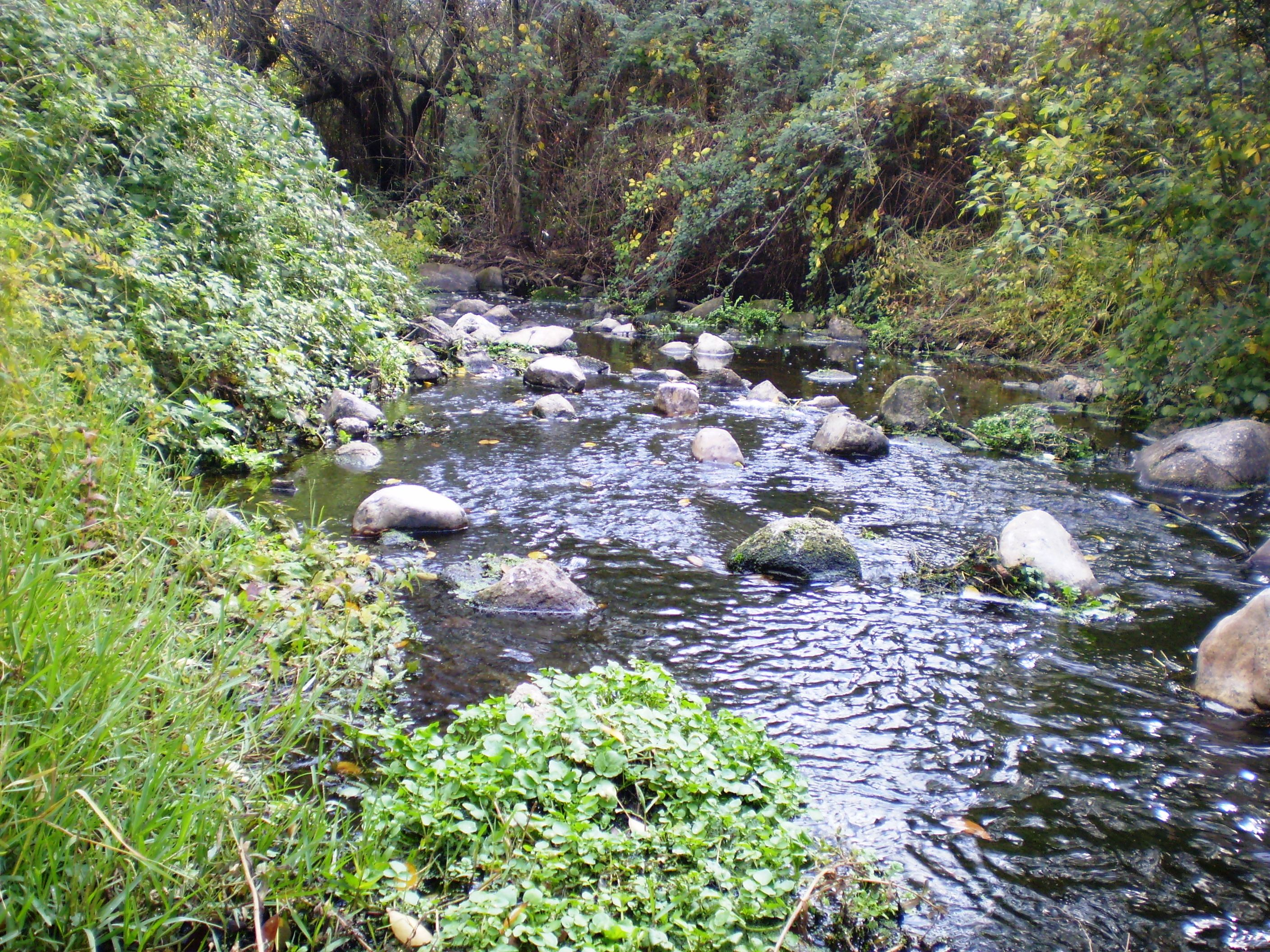 Arroyo de Trofa, in Torrelodones. Community of Madrid, Spain.